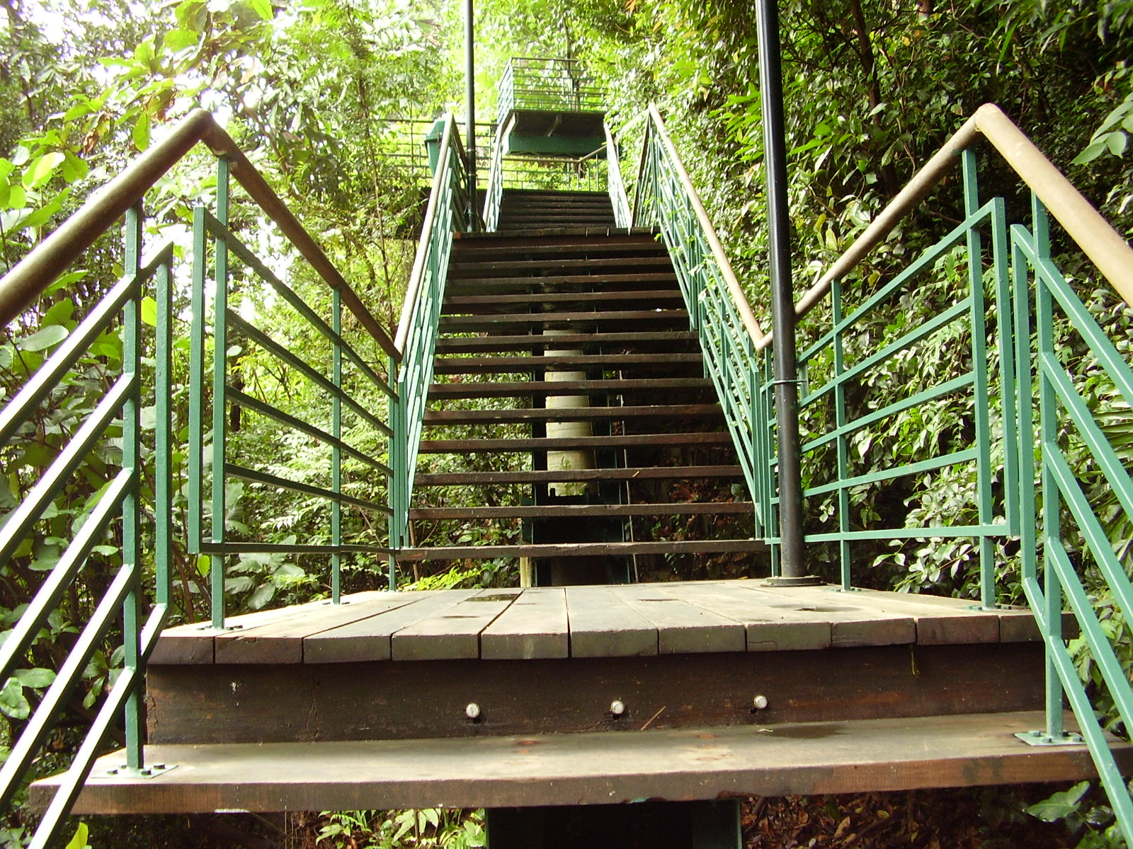 Labrador wooden open stair walkway, which allows visitors to walk up the cliff.